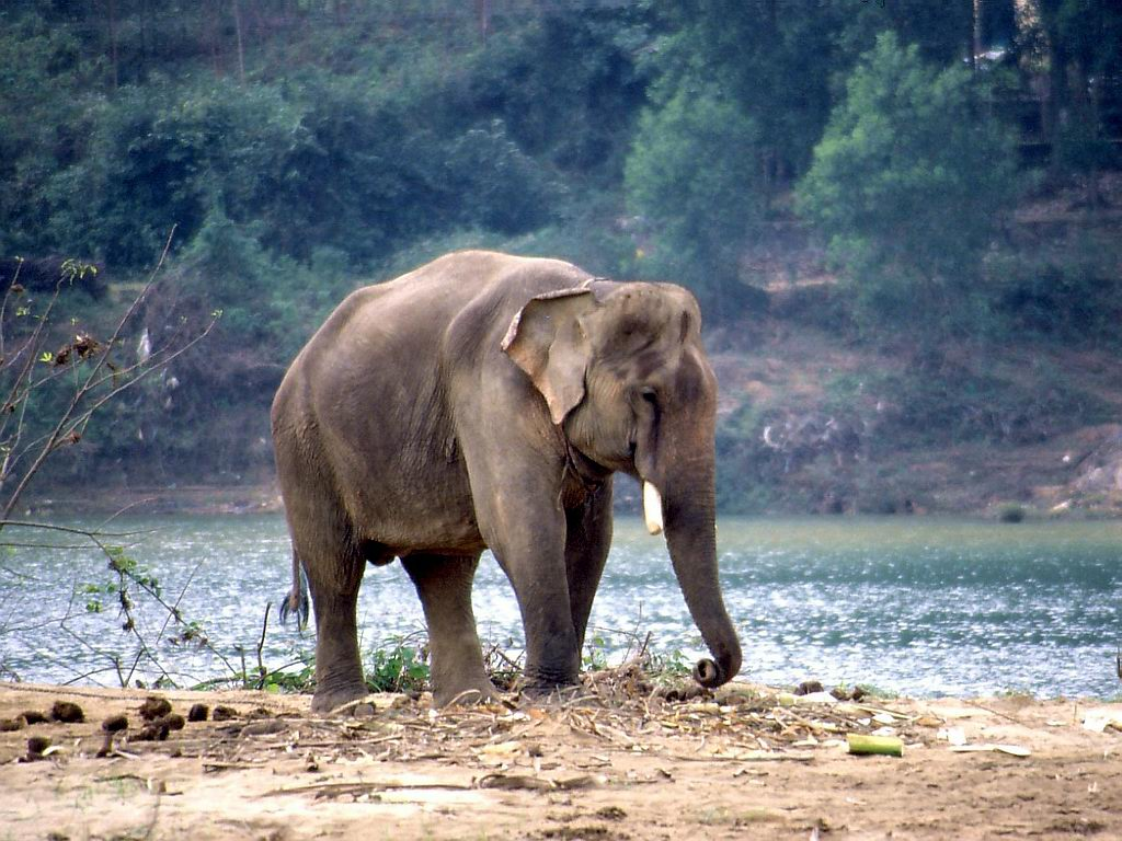 Working elephant at the bank of Perfume River, Vietnam